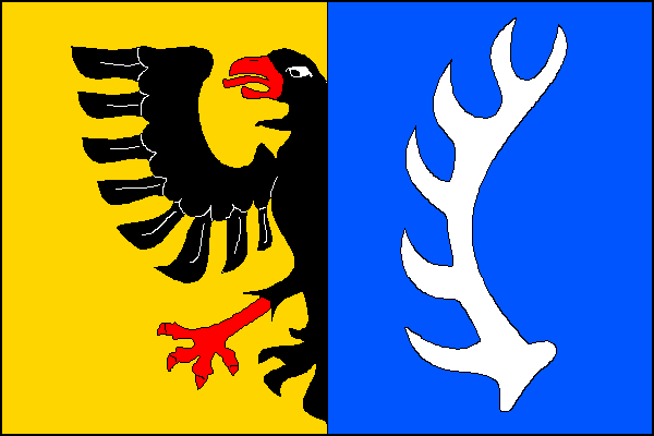 Municipal flag of Šumperk town, Czech Republic.